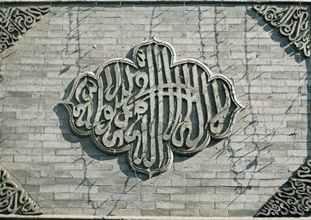 This Arabic calligraphy is one of the very few noticably Islamic items at the Great Mosque, Xi'an, the rest of the Mosque being very similar in style to most Chinese Buddhist or Daoist temples.